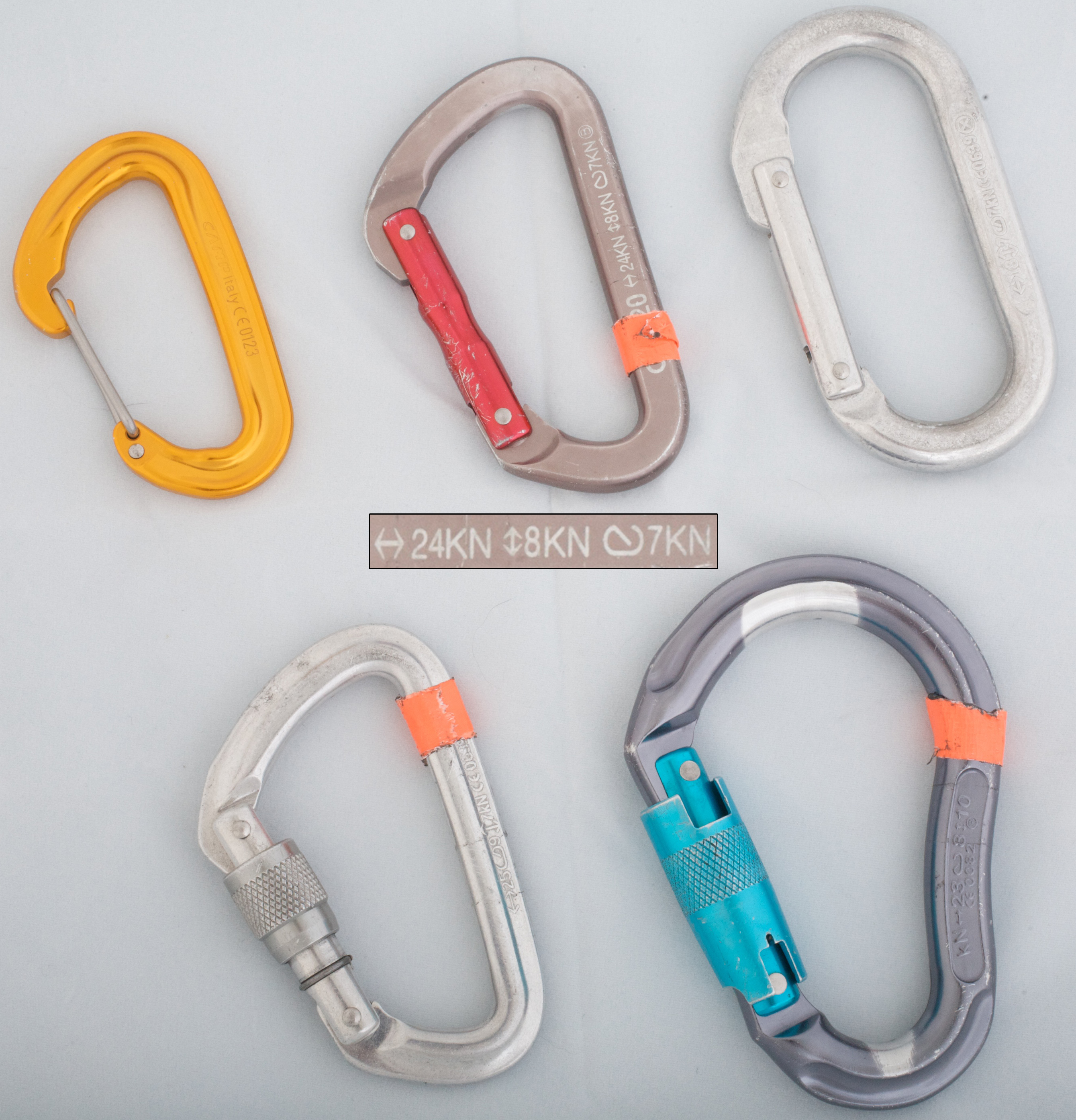 Assorted carabiners, clockwise from top left - D shape wire gate, straight gate, oval shape straight gate, auto lock, twist lock. Pictured center is a standard carabiner rating.NOTE: the orange tape is for identifying an individuals equipment.